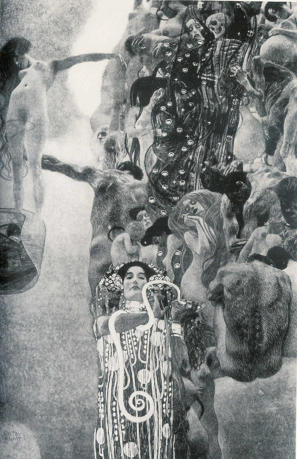 Fakultätsbild "Medizin", ursprünglich gemalt für den Festsaal der Universität Wien, Original verbrannt 1945 Painting "Medicine" originally created for the ceremonial hall of Vienna university, original burnt in 1945